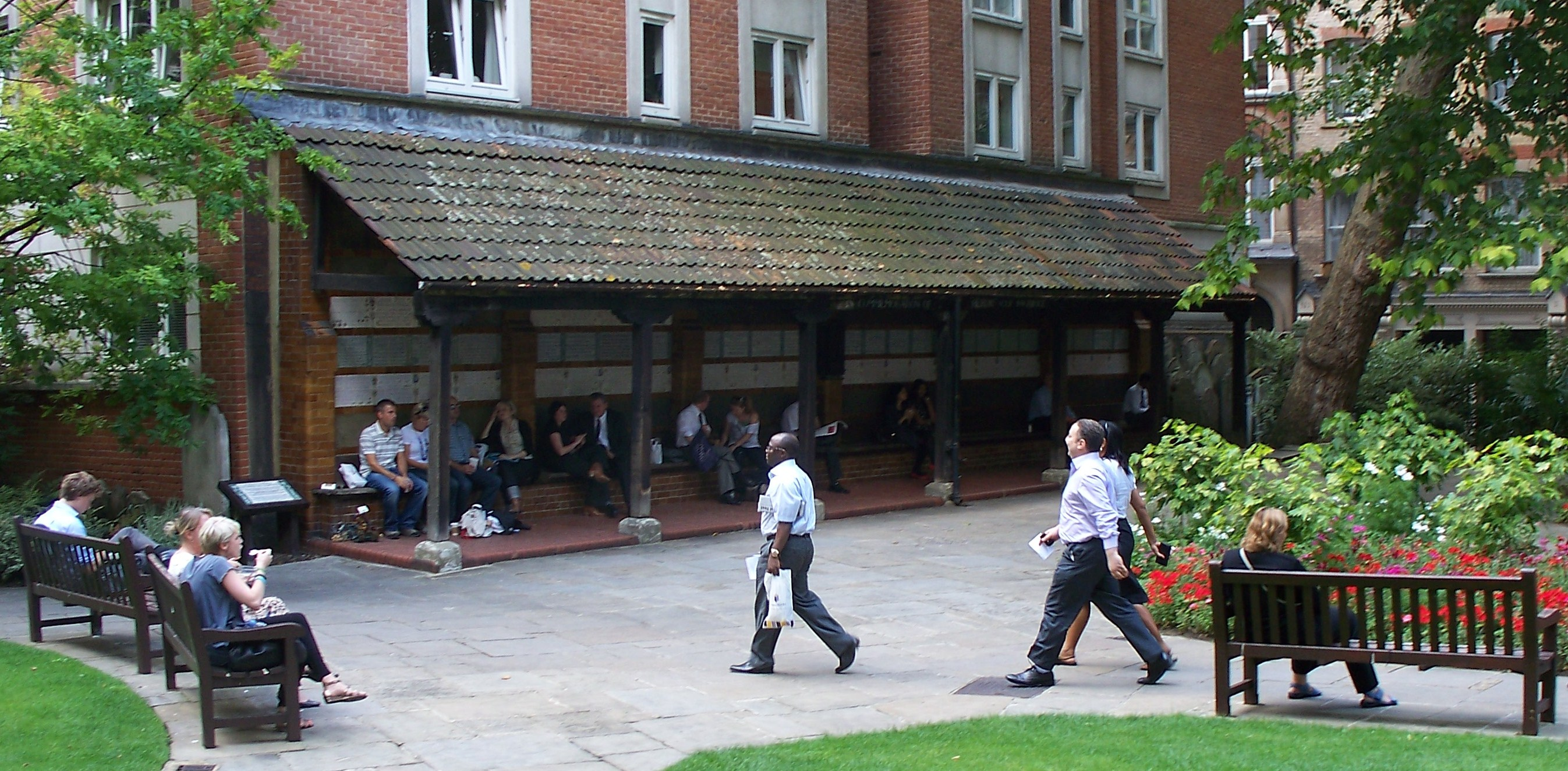 Wall of Heroes, Postman's Park, London. Photograph taken in a public location in the UK of a structure on permanent public display, and exempt from copyright under Section 62 of the Copyright Designs & Patents Act 1988 ("it is not an infringement of copyright to film, photograph, broadcast or make a graphic image of a building, sculpture, models for buildings or work of artistic craftsmanship if that work is permanently situated in a public place or in premises open to the public")